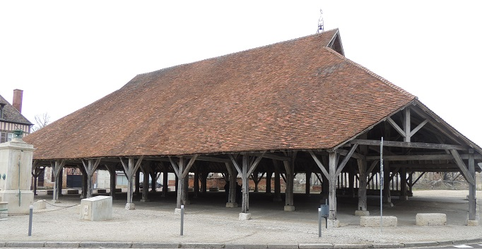 Halle, Monument of the 2nd Feb 1814 and Napoleon General HQ on the left